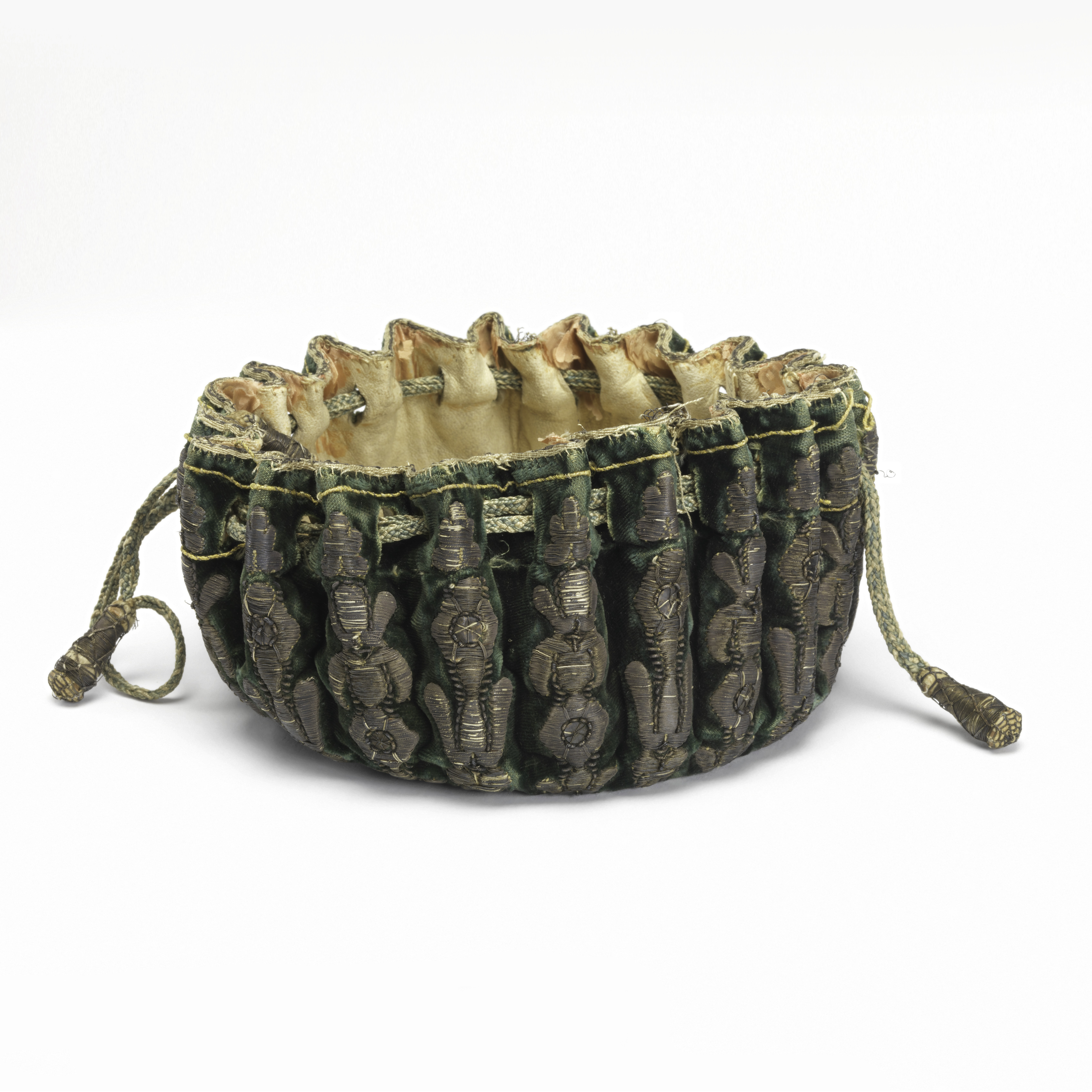 Green velvet bag lined with leather, with green draw string and metal tassels. Embroidered on the sides with a raised columnar design in silver. The bottom is embroidered with the coat of arms of the City of Paris in coral-colored silk and metal threads.